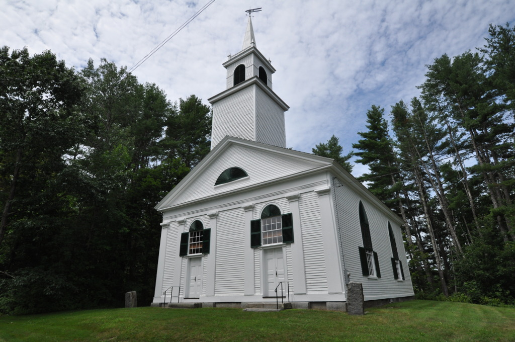 Head Tide Church, in the Head Tide Historic District, Alna, Maine.